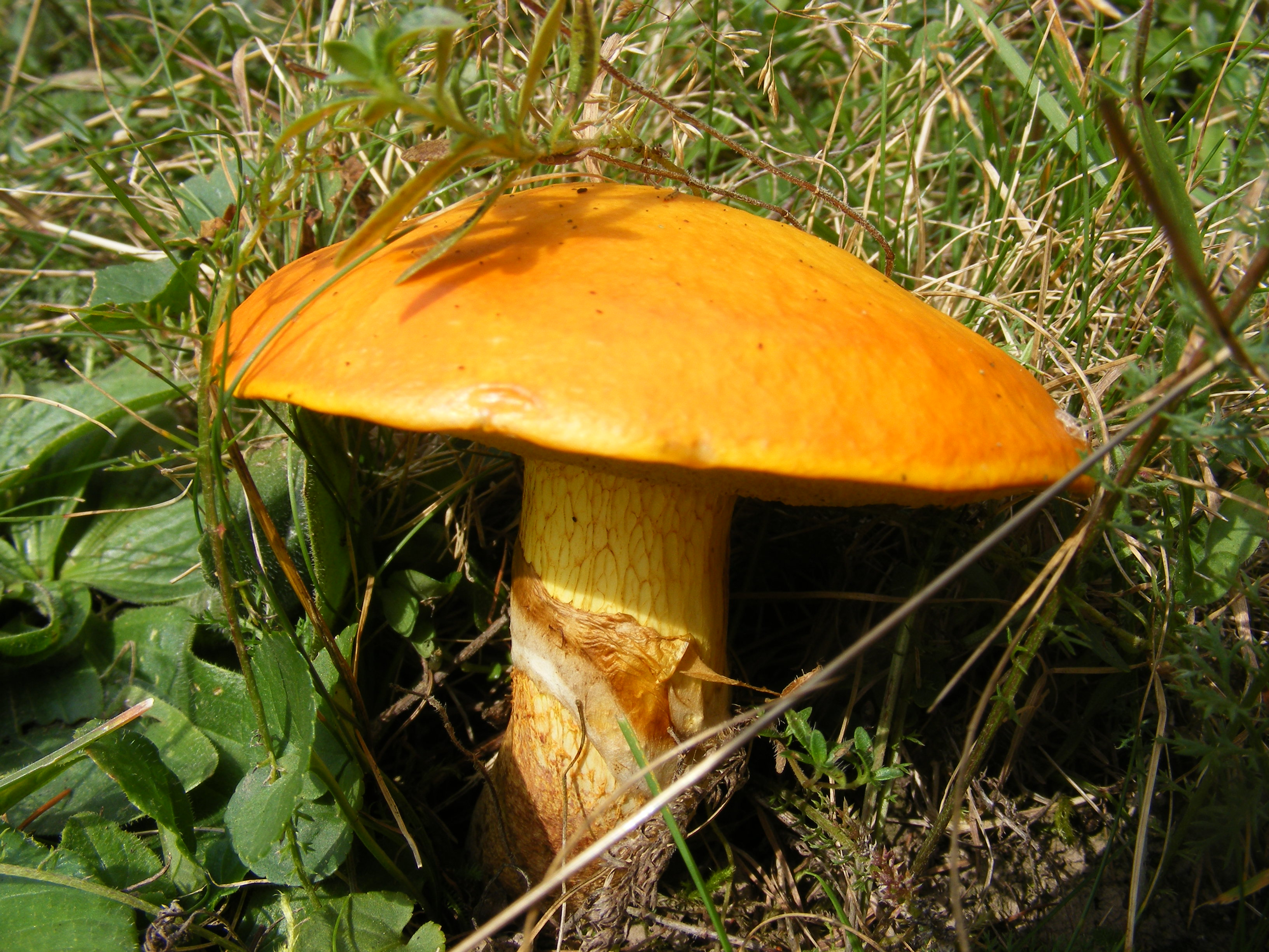 Suillus grevillei